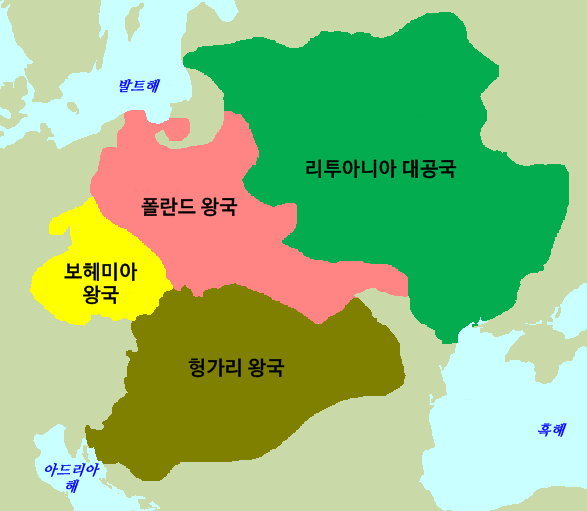 Jagiellon realm on 15th century. Kingdoms of Poland, Hungary, Bohemia and Grand Duchy of Lithuania.